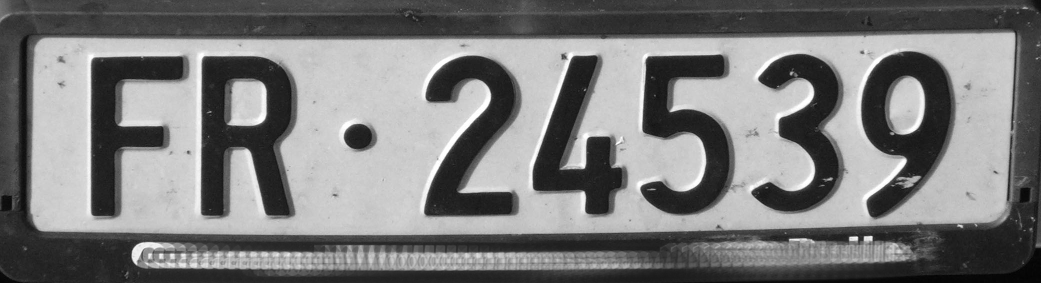 Vehicle licence plate from Switzerland as seen in 2007. "FR" stands for Fribourg canton.